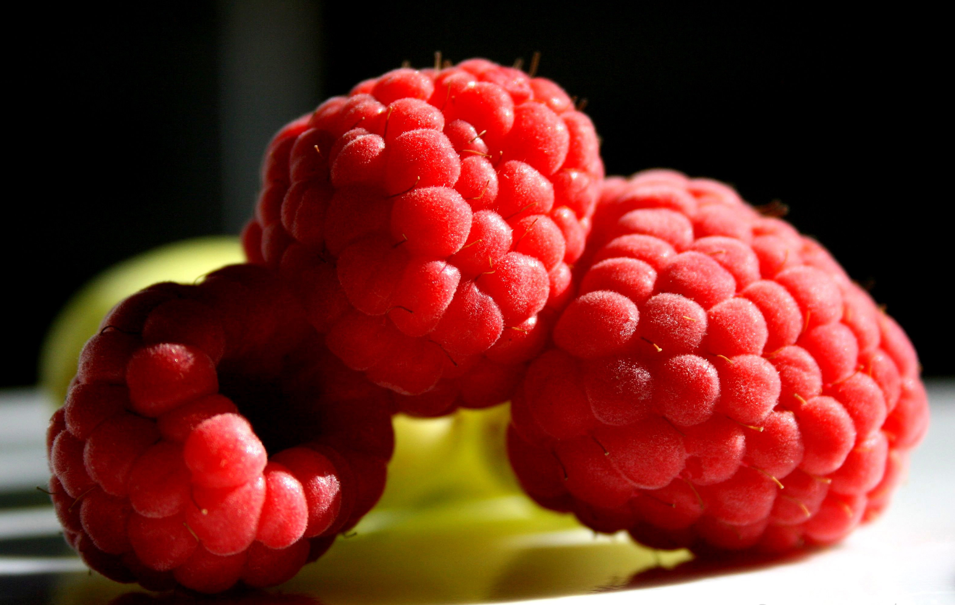 Frozen raspberries.